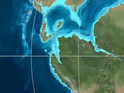 Paleogeography Colombia 120 Ma